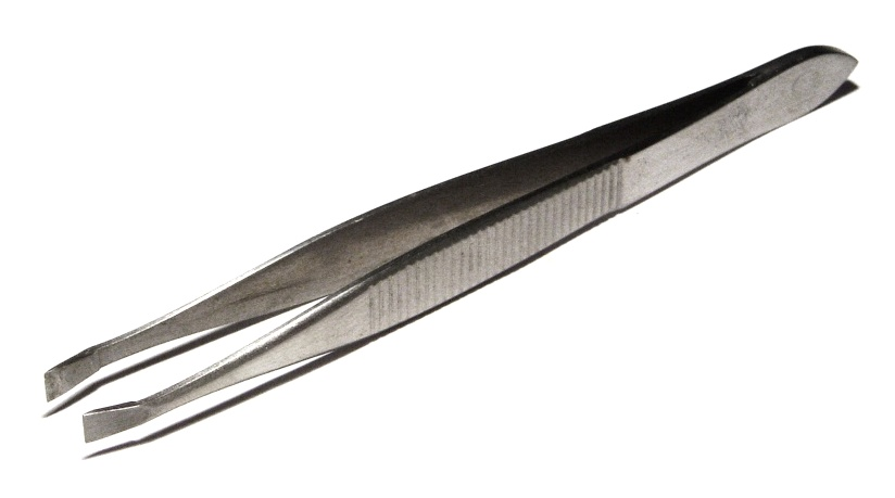 By Richard Wheeler (Zephyris) 2007.